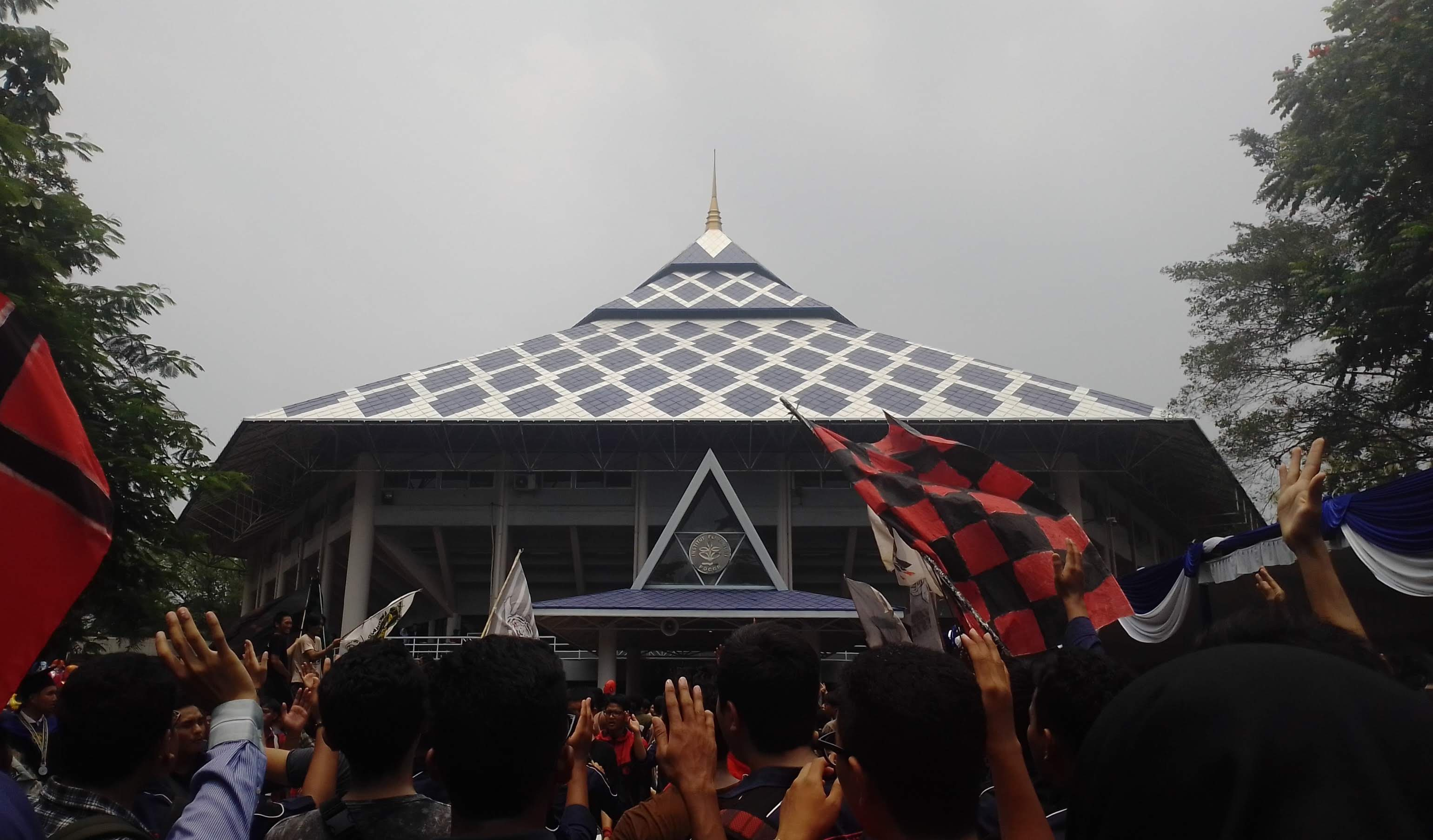 A march of Agr. Tech. Faculty students cheering around Graha Widya Wisuda, IPB's auditorium, for their fellows' graduation.